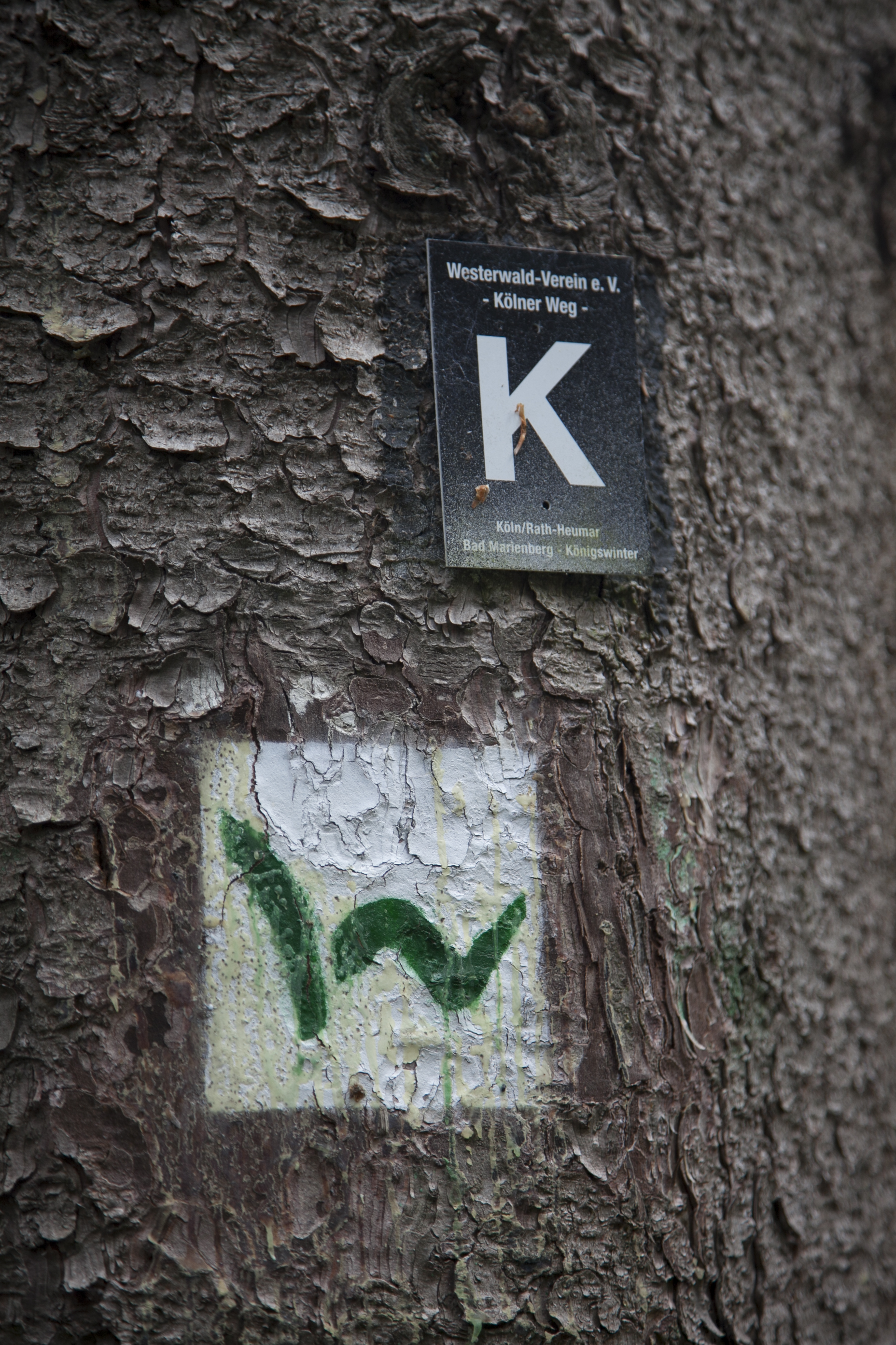 forest around village Burglahr: sign hiking-trail / hike path - at various trunks; this here nearby oak: "Westerwald-Steig" [meaning path through Western Forest] and path named "Kölner Weg" [meaning Cologne path]